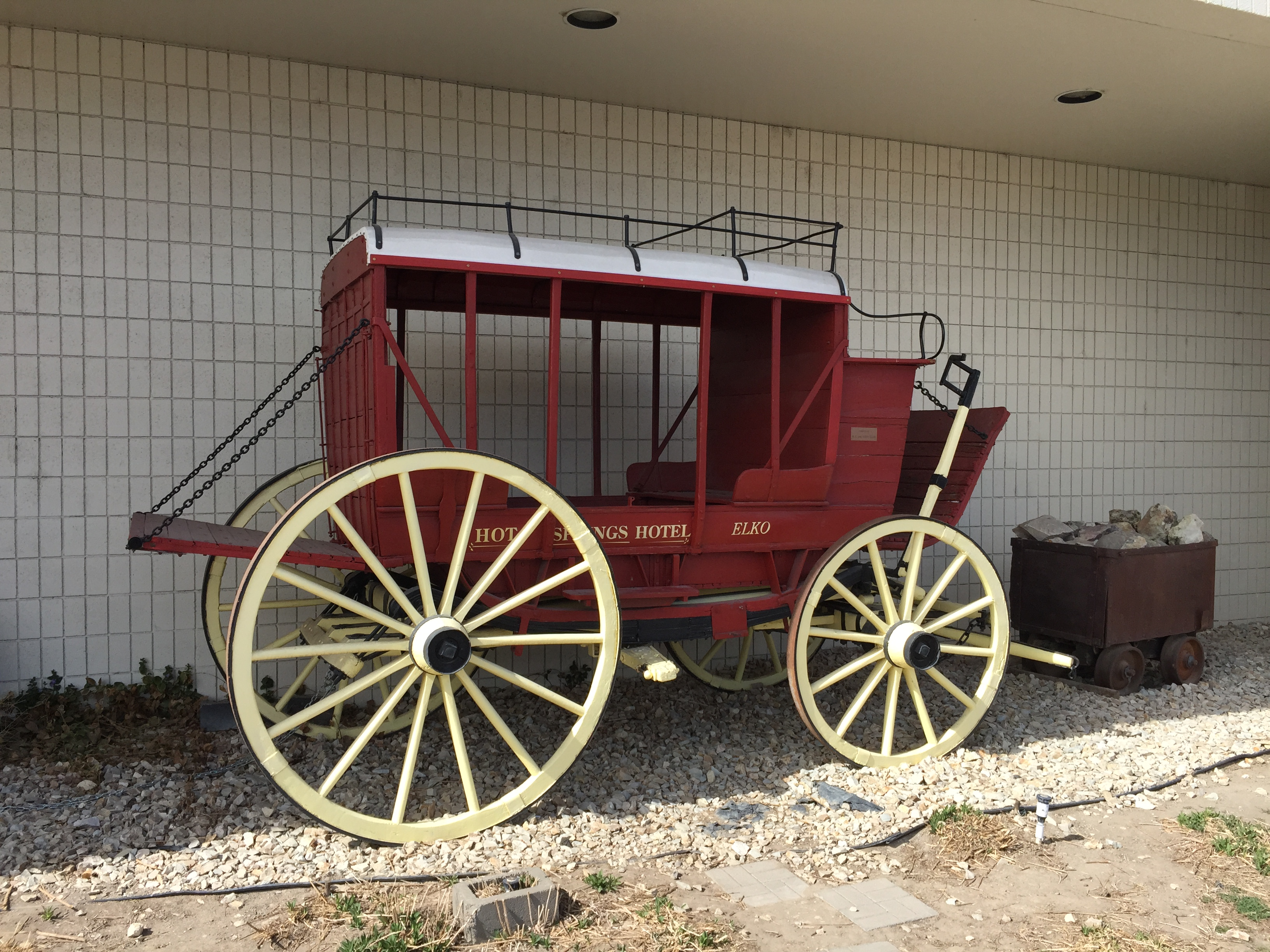 Hot Springs Hotel carriage at the Northeastern Nevada Museum in Elko, Nevada